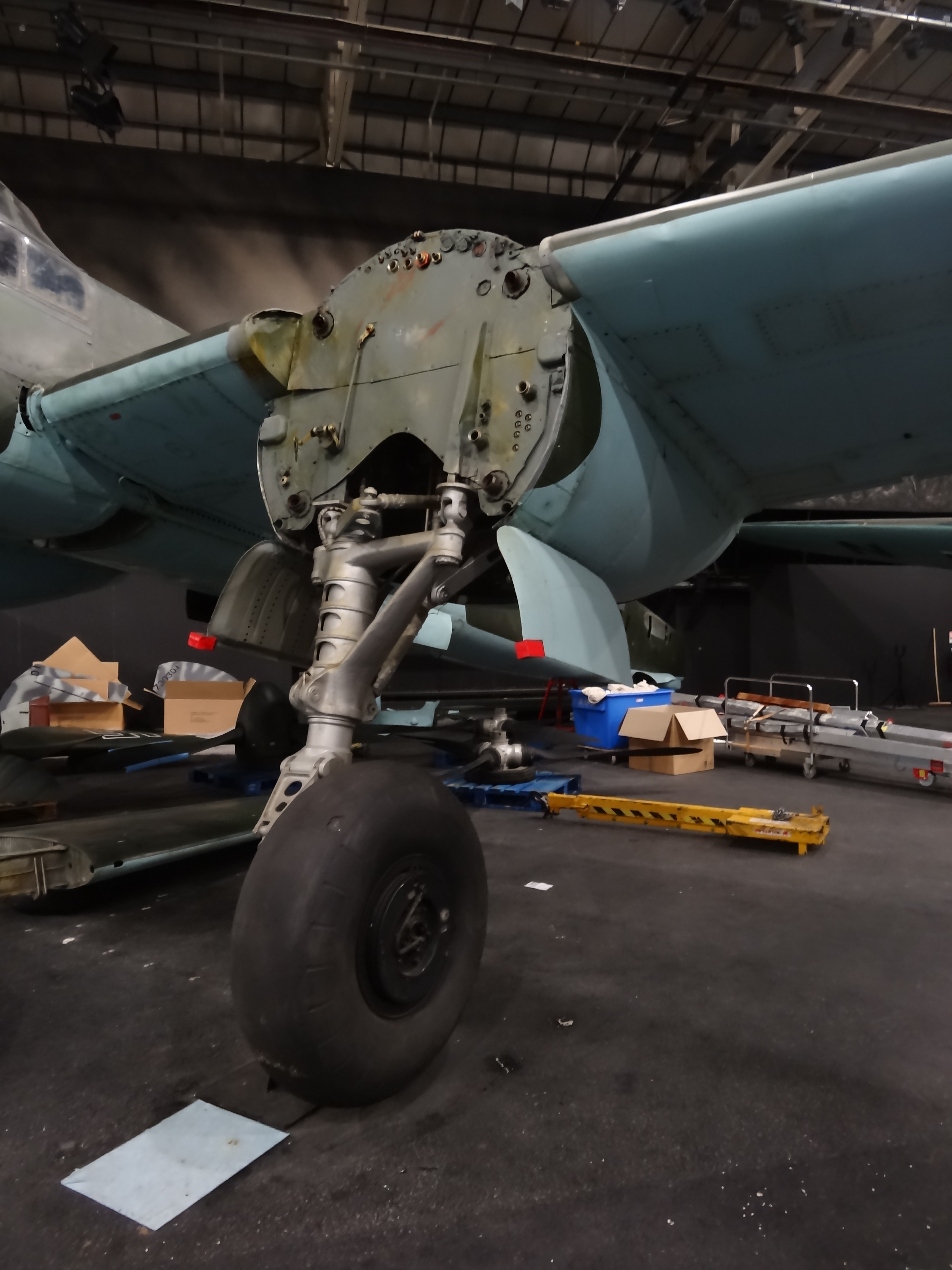 Junkers Ju 88 360043 - some maintenance going on